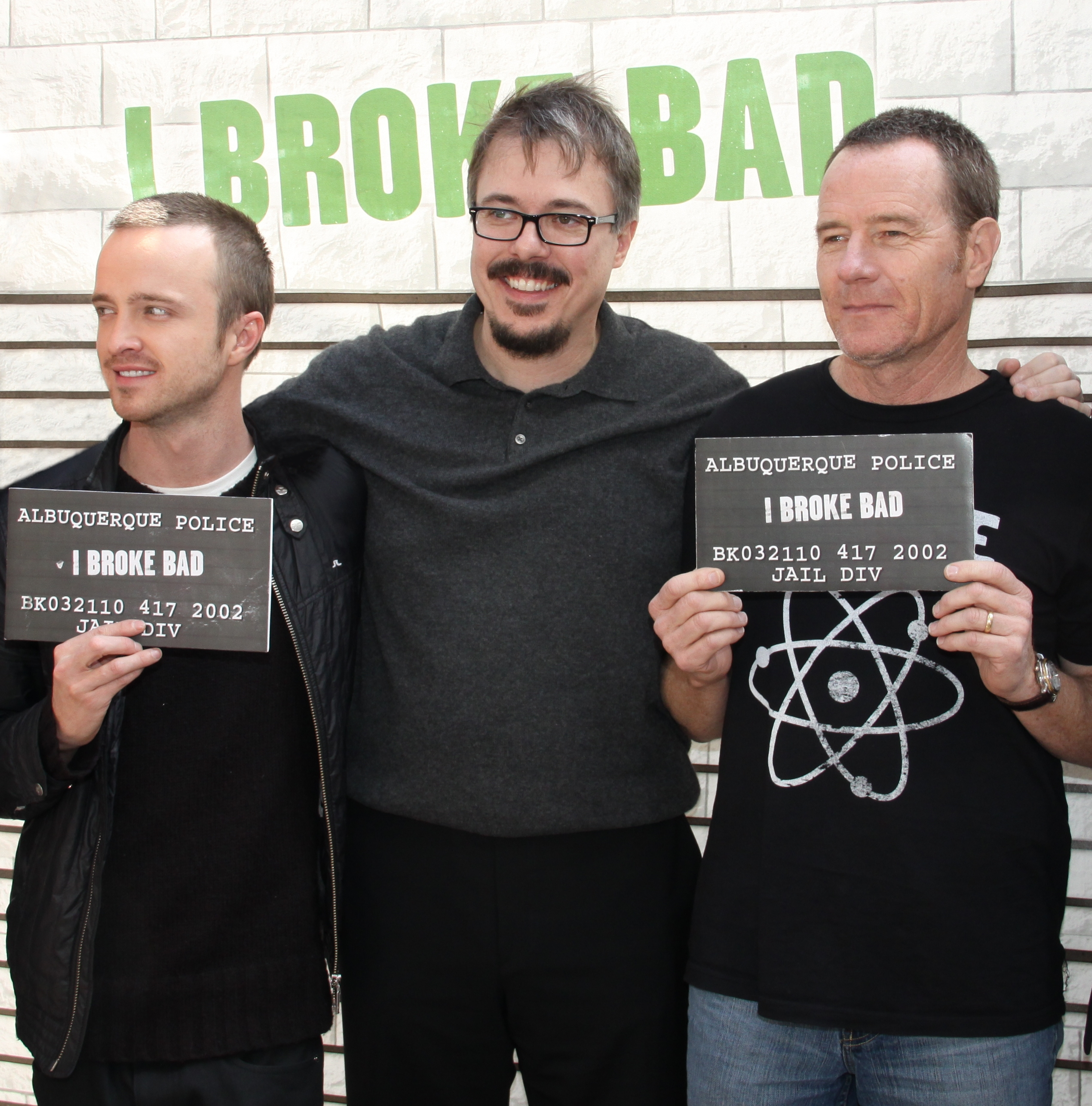 Aaron Paul, Vince Gilligan and Bryan Cranston of AMC's 'Breaking Bad'